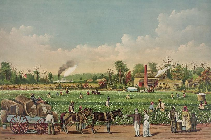 A cotton plantation on the Mississippi, 1884.